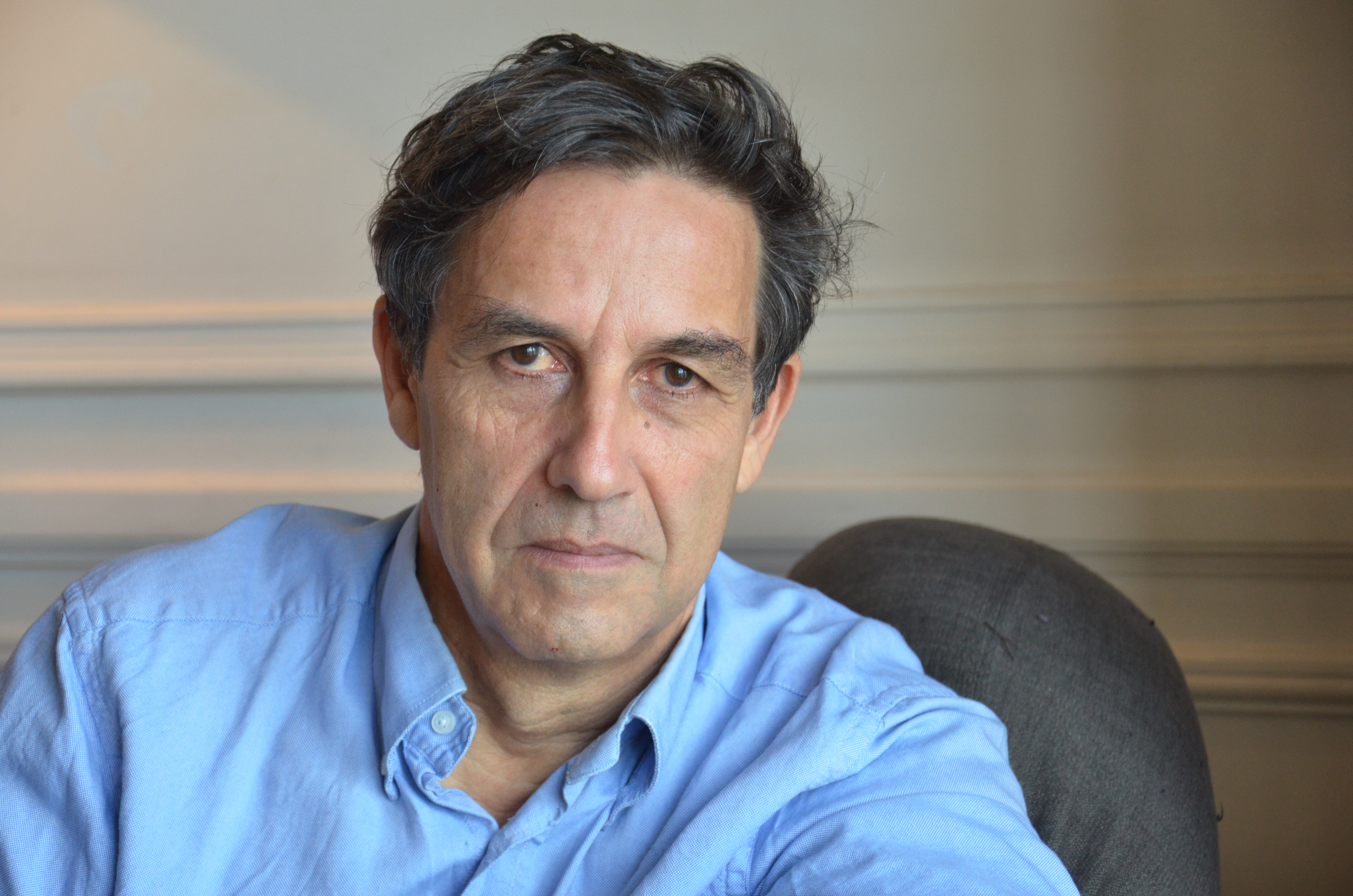 Emmanuel Todd 3 11 2014